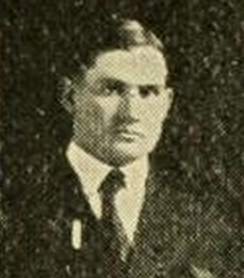 F. M. "Mysterious" Walker